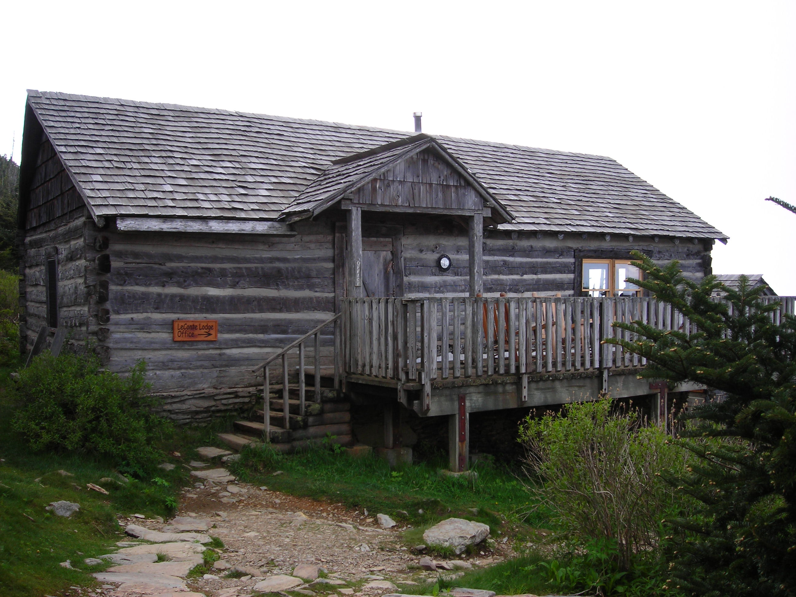 The office of the LeConte Lodge mountaintop "resort" near the summit of Mount Le Conte is the hub of activities both at the lodge and on the mountain. Customers at the lodge are offered numerous forms of non-electronic entertainment here, and many day-hikers use the office as a resting place before making the trek back down the mountain.